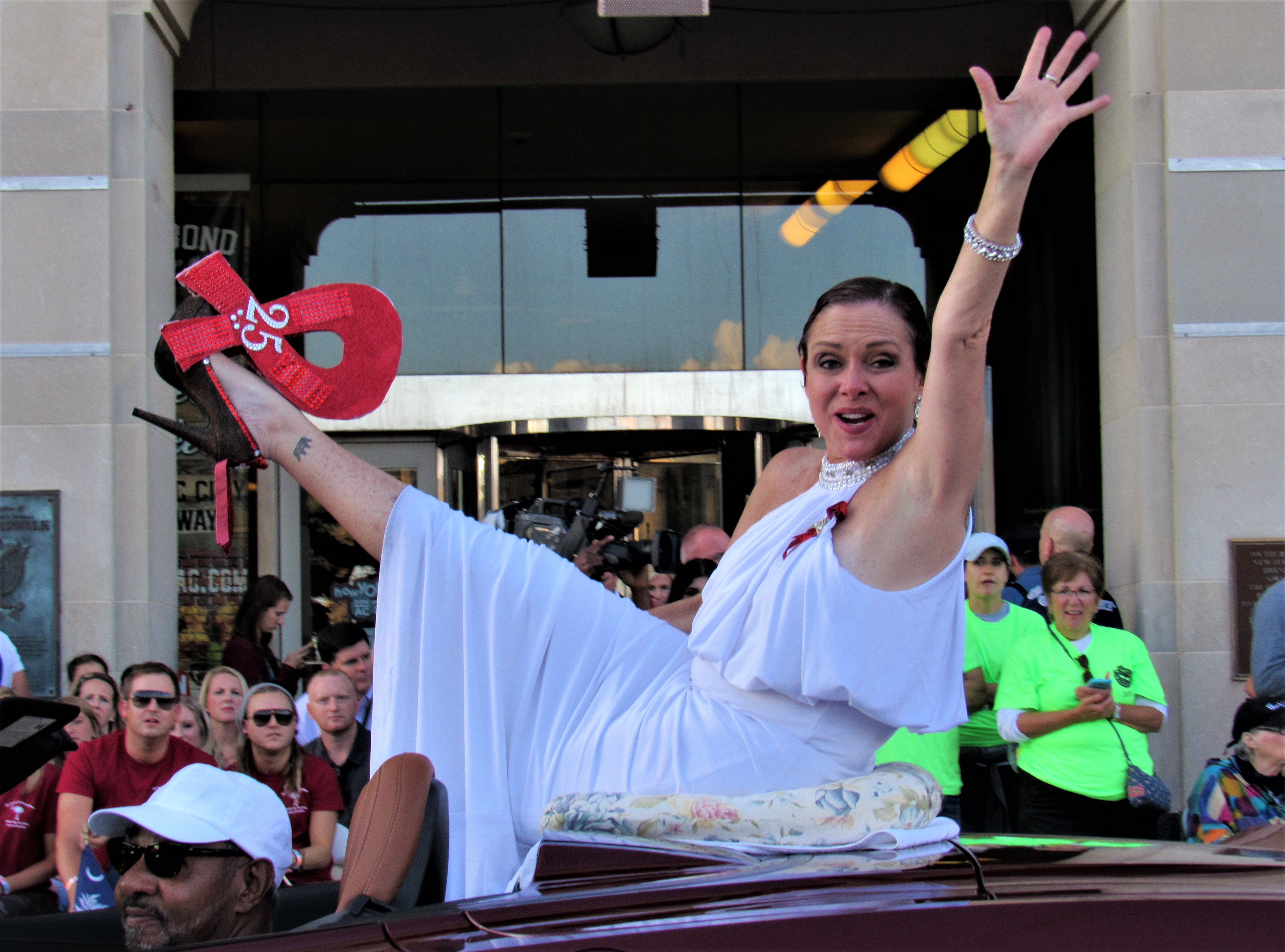 Leanza Cornett, Miss America 1993, at the 2017 Show Us Your Shoes parade on the boardwalk in Atlantic City, New Jersey. Her shoe commemorates her advocacy of people with HIV/AIDS and the 25th anniversary of her crowning as Miss America.